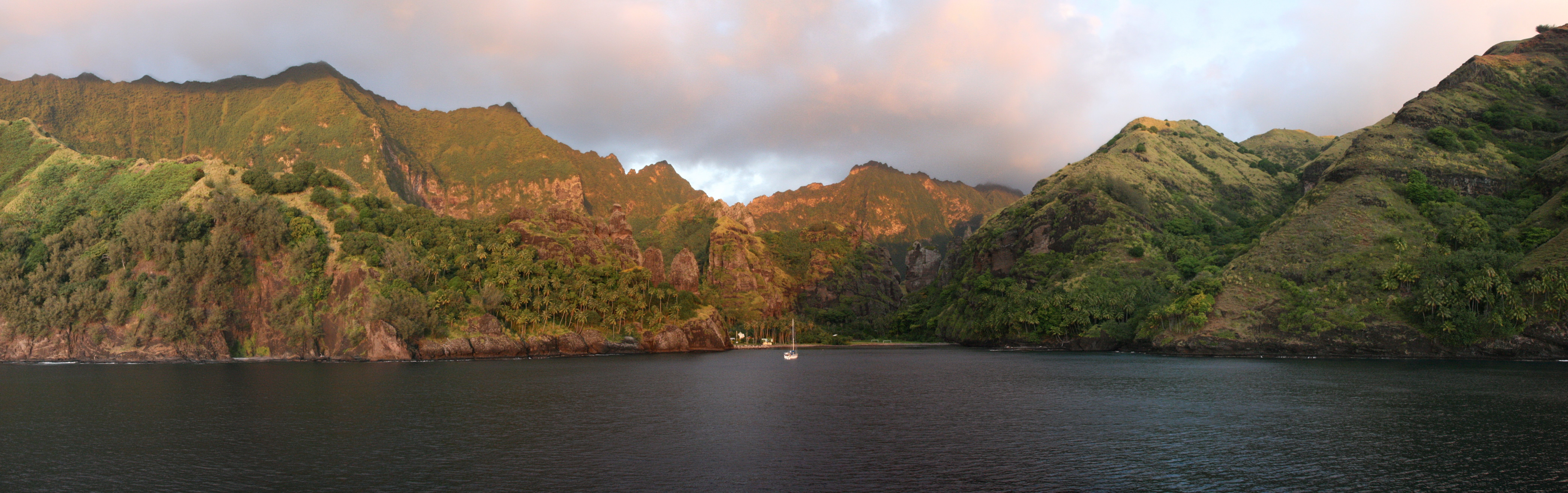 The Bay of Virgins at sunset, in Hanavave, island of Fatu Hiva, Marquesas islands, French Polynesia.